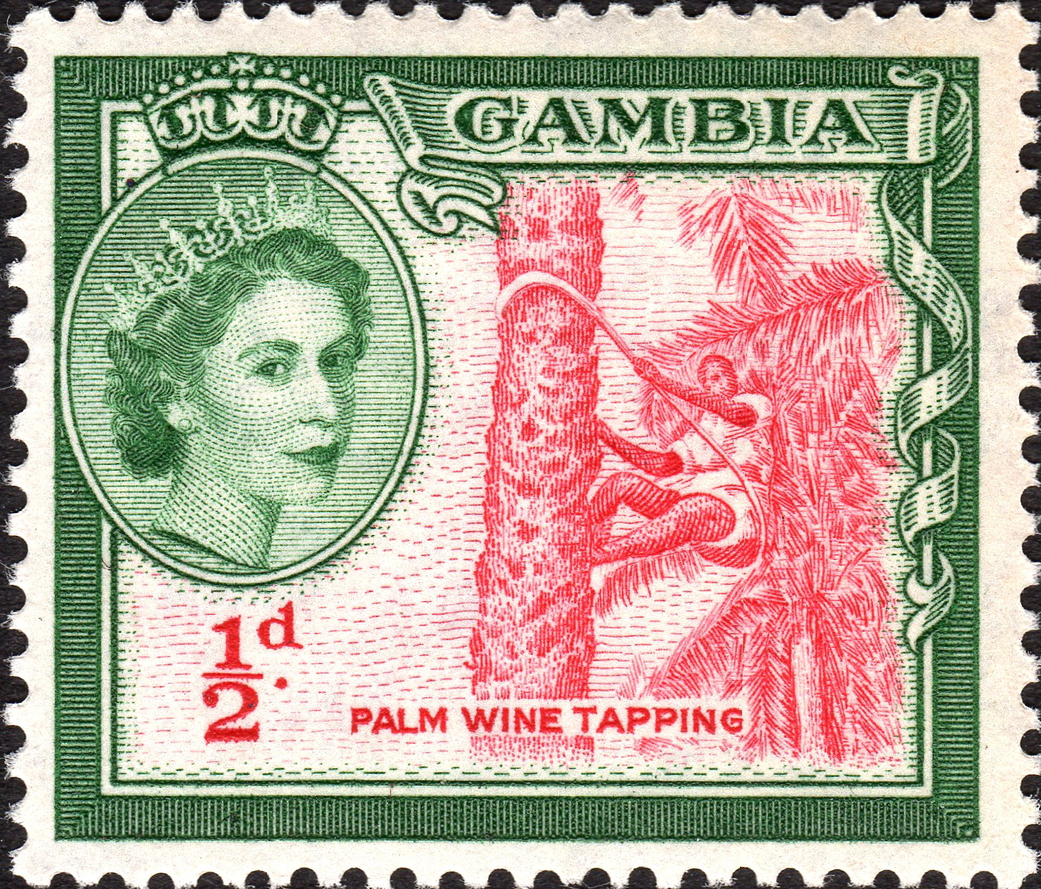 Gambia 1953 stamps.